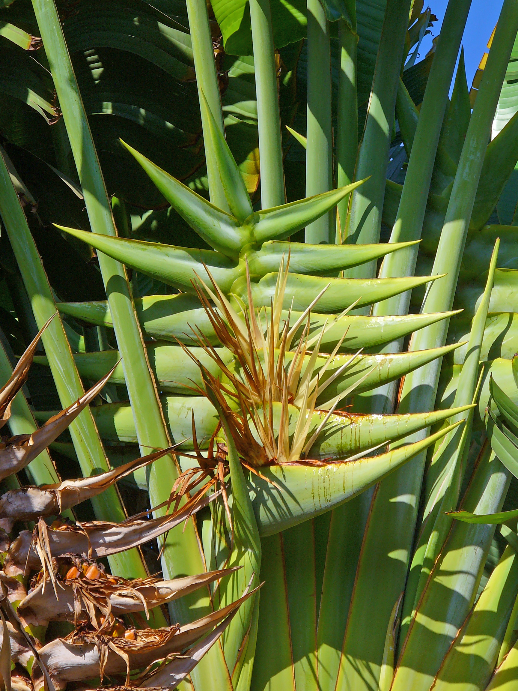 Traveller's Tree; Inflorescence; Botanical Garden Maspalomas, Gran Canaria, Canary Islands, Spain